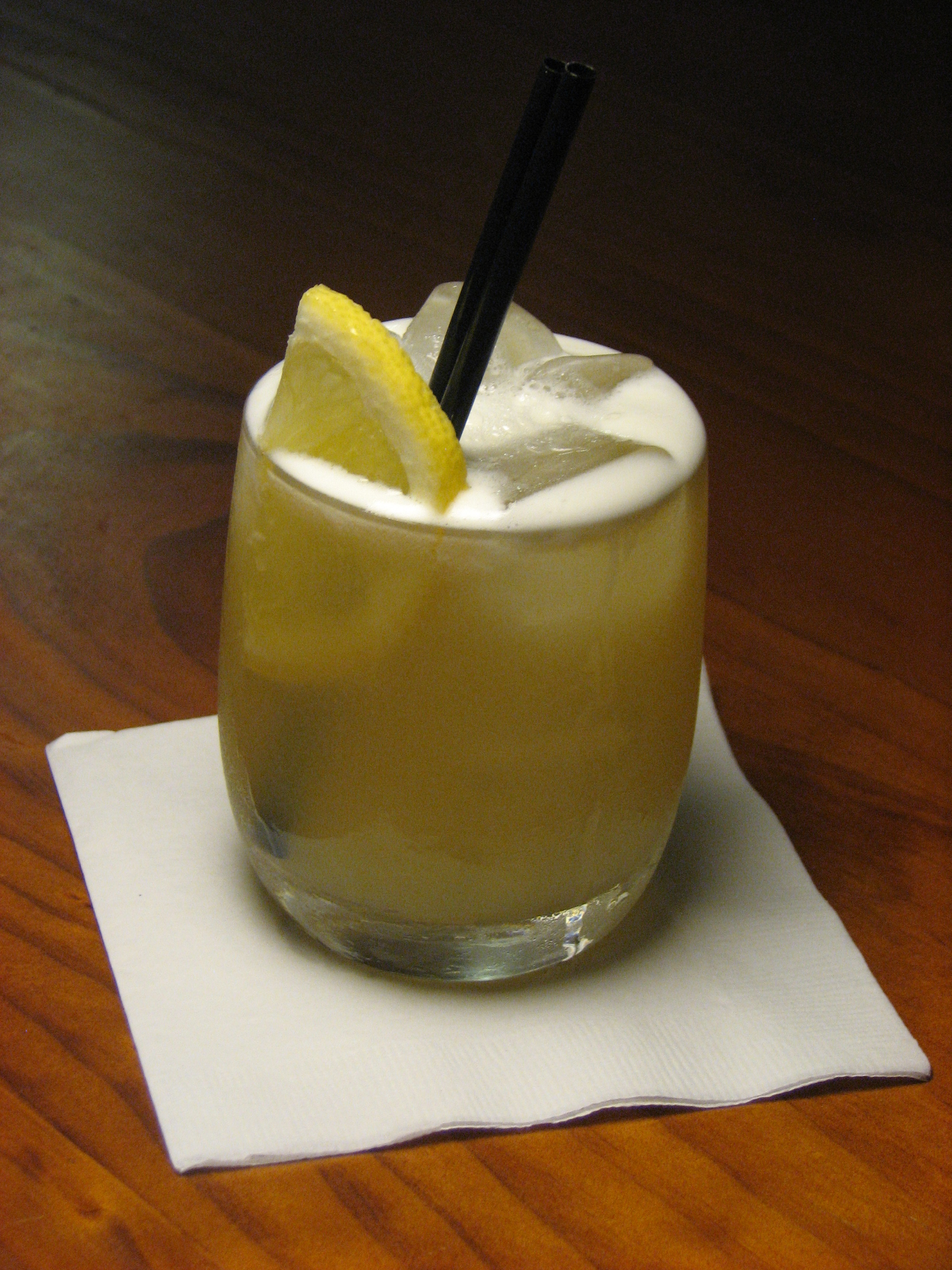 Whiskey sour cocktail, Enmore, 2011.